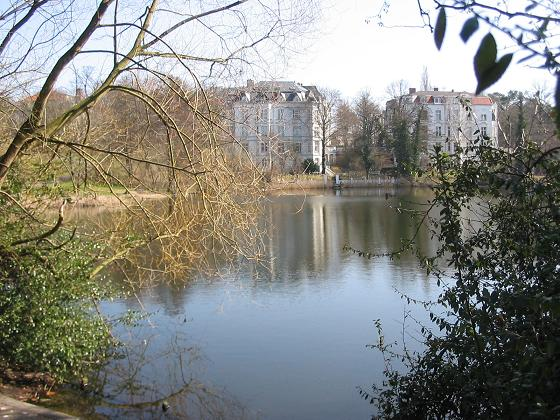 Berlin's lake Halensee